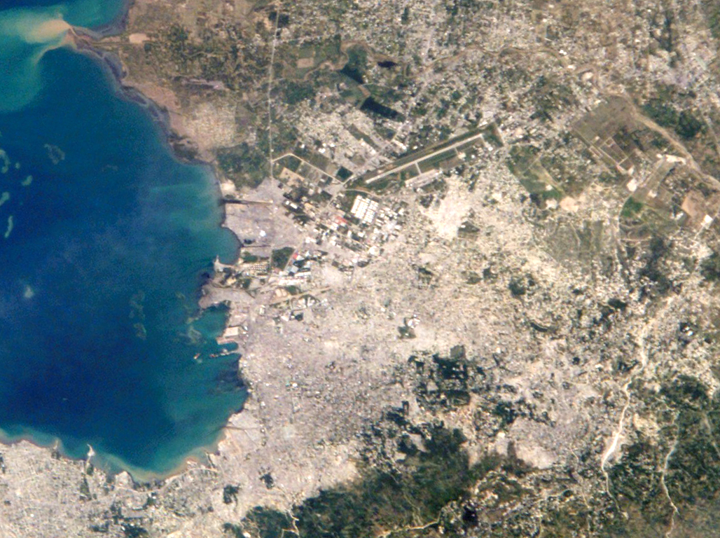 Port-au-Prince, capital of Haiti.